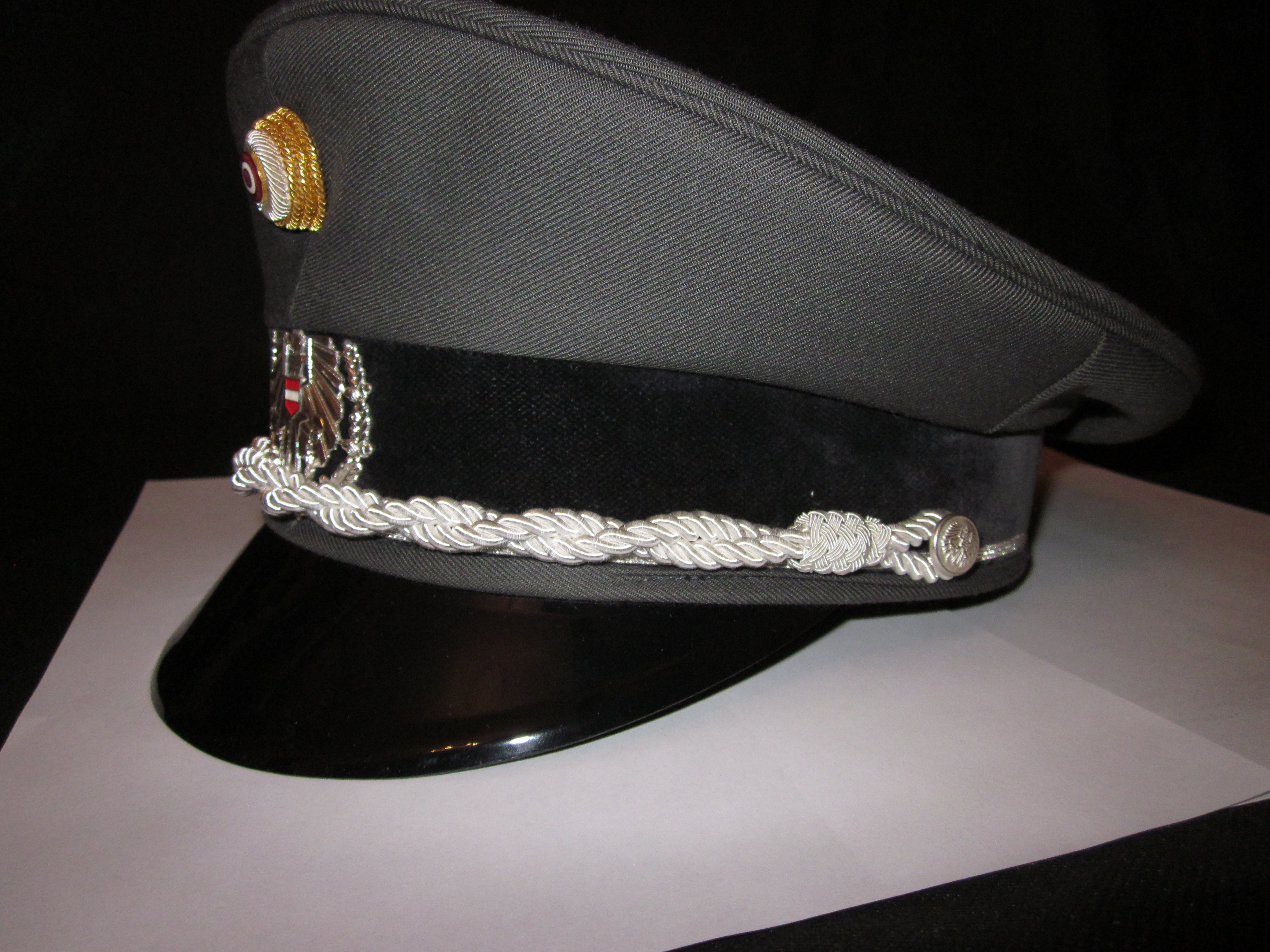 Peaked cap of the Austrian Army, Rank: "Wachtmeister" (OR5).